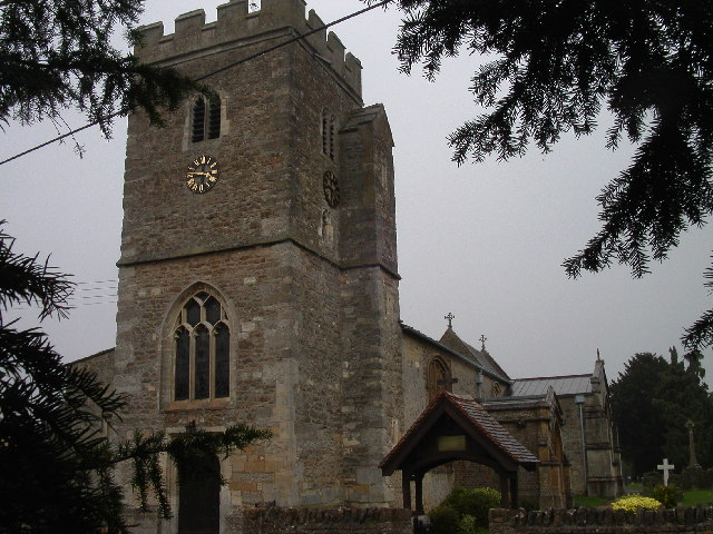 Church of England parish church of St Peter, Drayton, near Abingdon, Oxfordshire (formerly Berkshire)